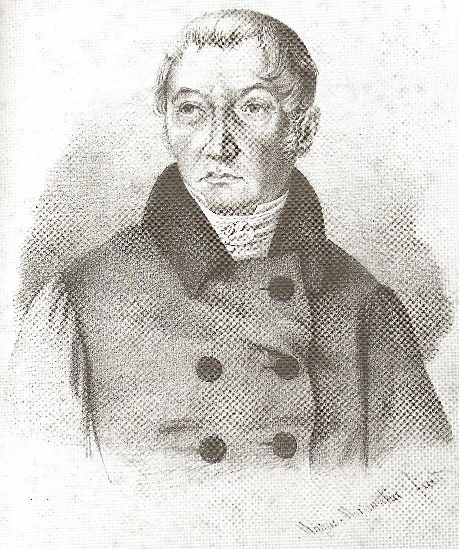 Kajetan Koźmian, Polish poet